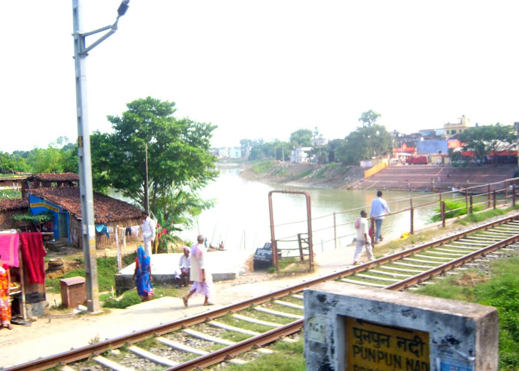 Punpun river near punpun ghat station